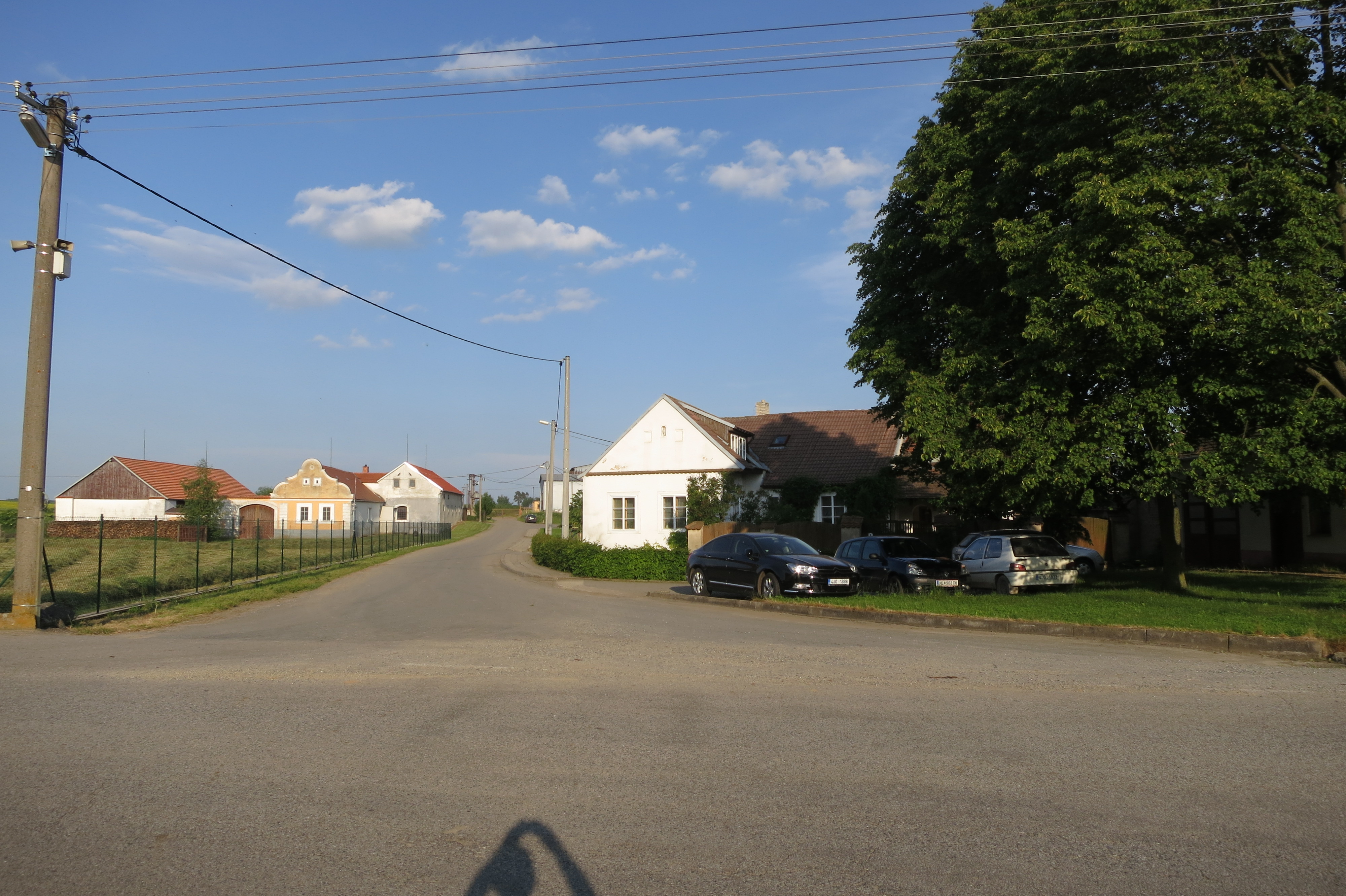 Center of Menhartice, Třebíč District.